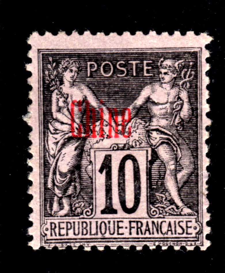 Scan of a stamp issued by France for use in China. Stamp originally issued in 1876.